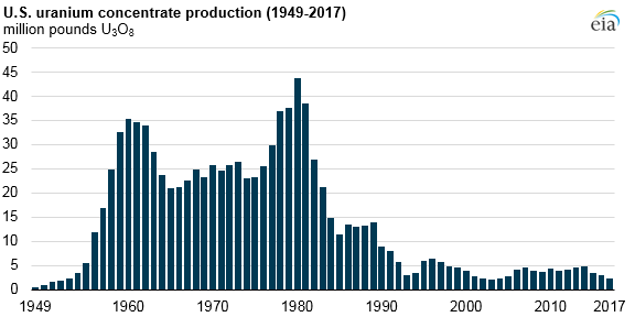 U.S. domestic uranium concentrate production began in 1949 and peaked in 1980. October 3, 2018